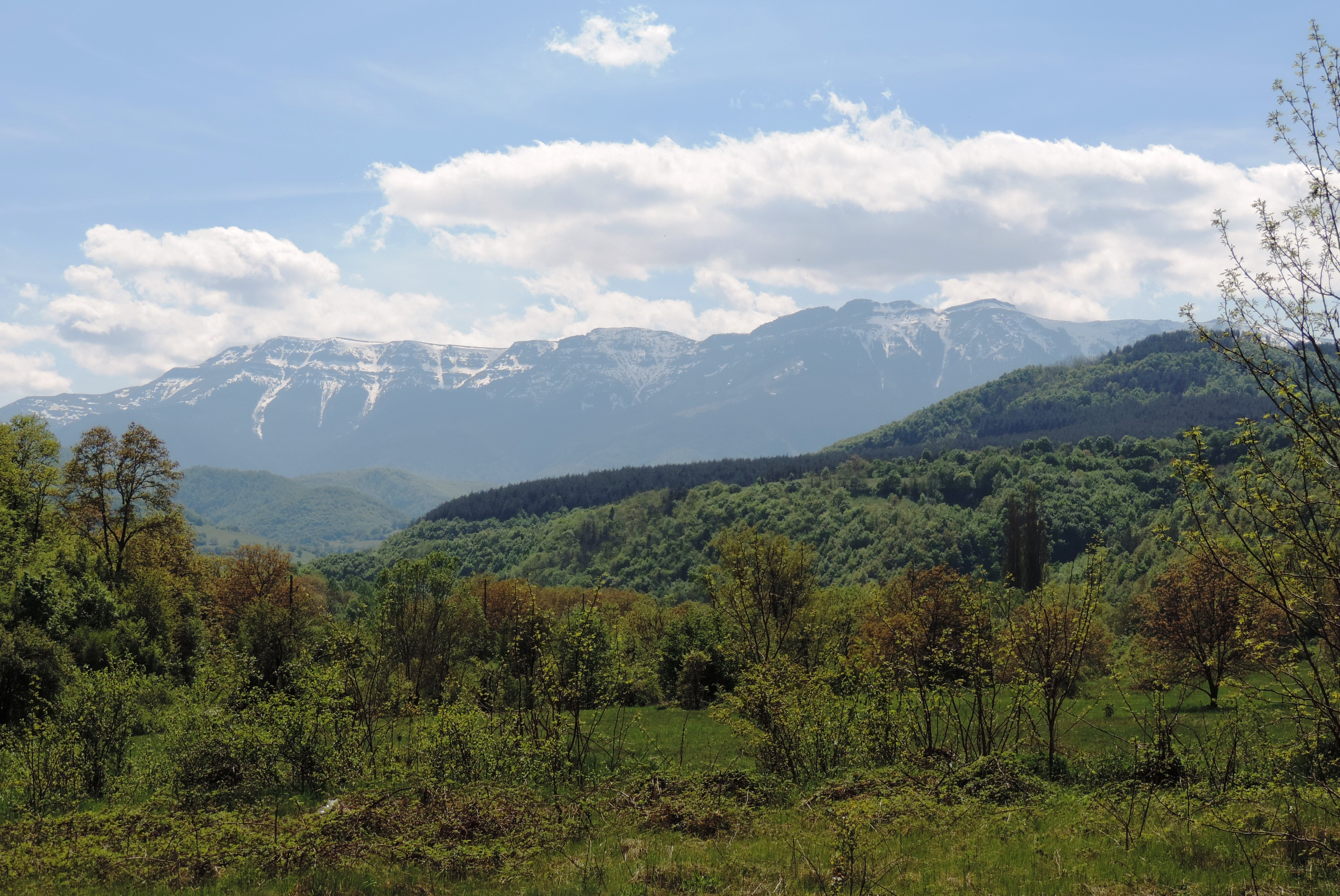 View towards the Chiprovska Mountain